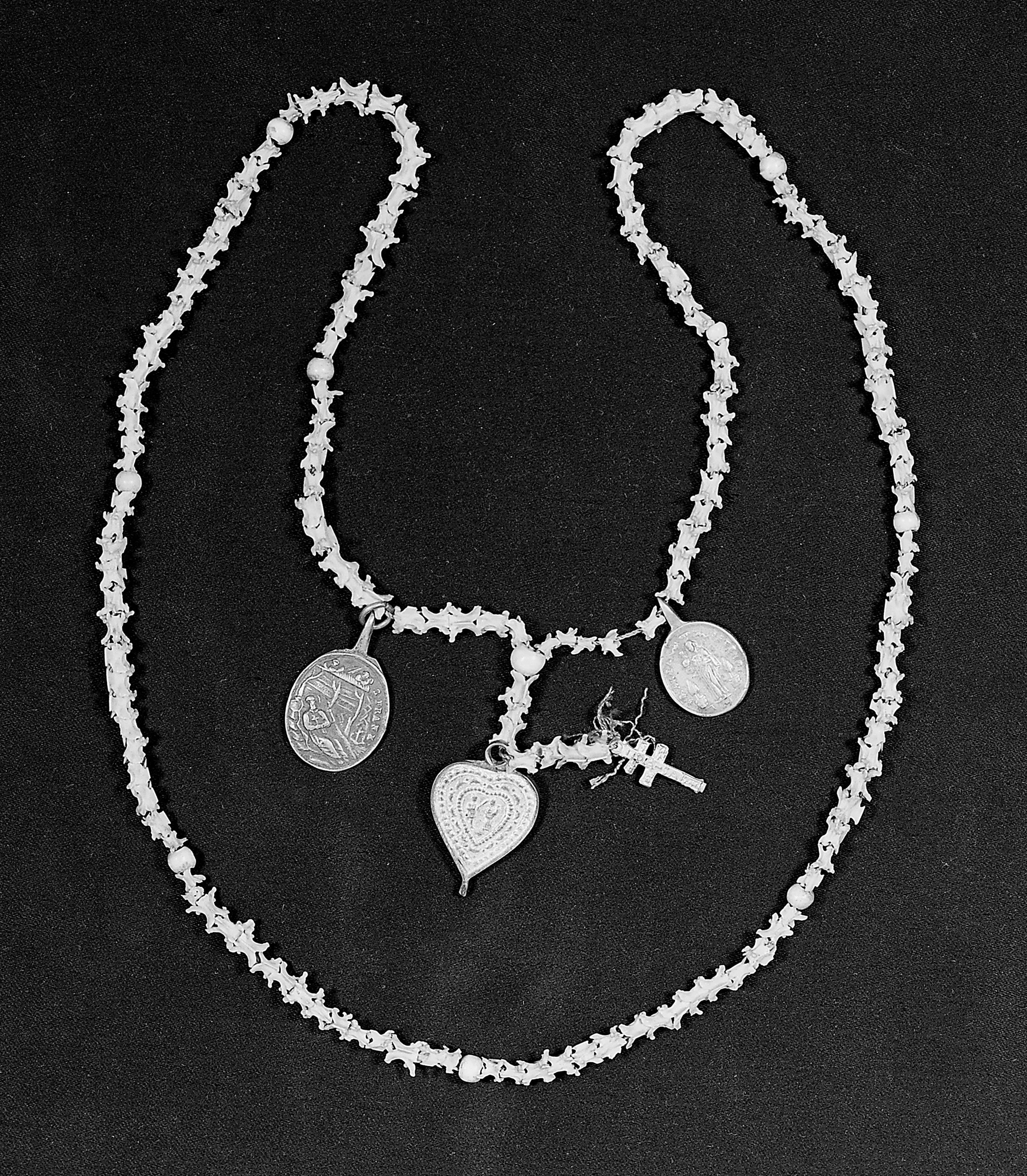 Necklet of the vertebrae of an adder hung with 3 medallions, the madonna and Child, St. Francis and Ignatius loyola, and a cross. Put in a child's bed during dentition as a protection again 'Fraisen'. Wellcome Images Keywords: amulet; charm